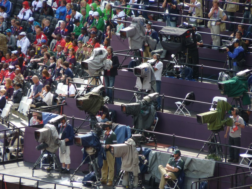 Cameras, Olympic Park, London Olympic Games, 6 August 2012